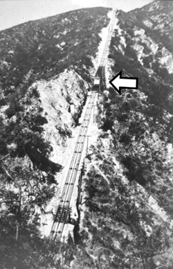 The Great Incline funicular of the Mount Lowe Railway (1893 - 1938). The arrow denotes location of ascending car on the Macpherson Trestle. Grade: 62%.